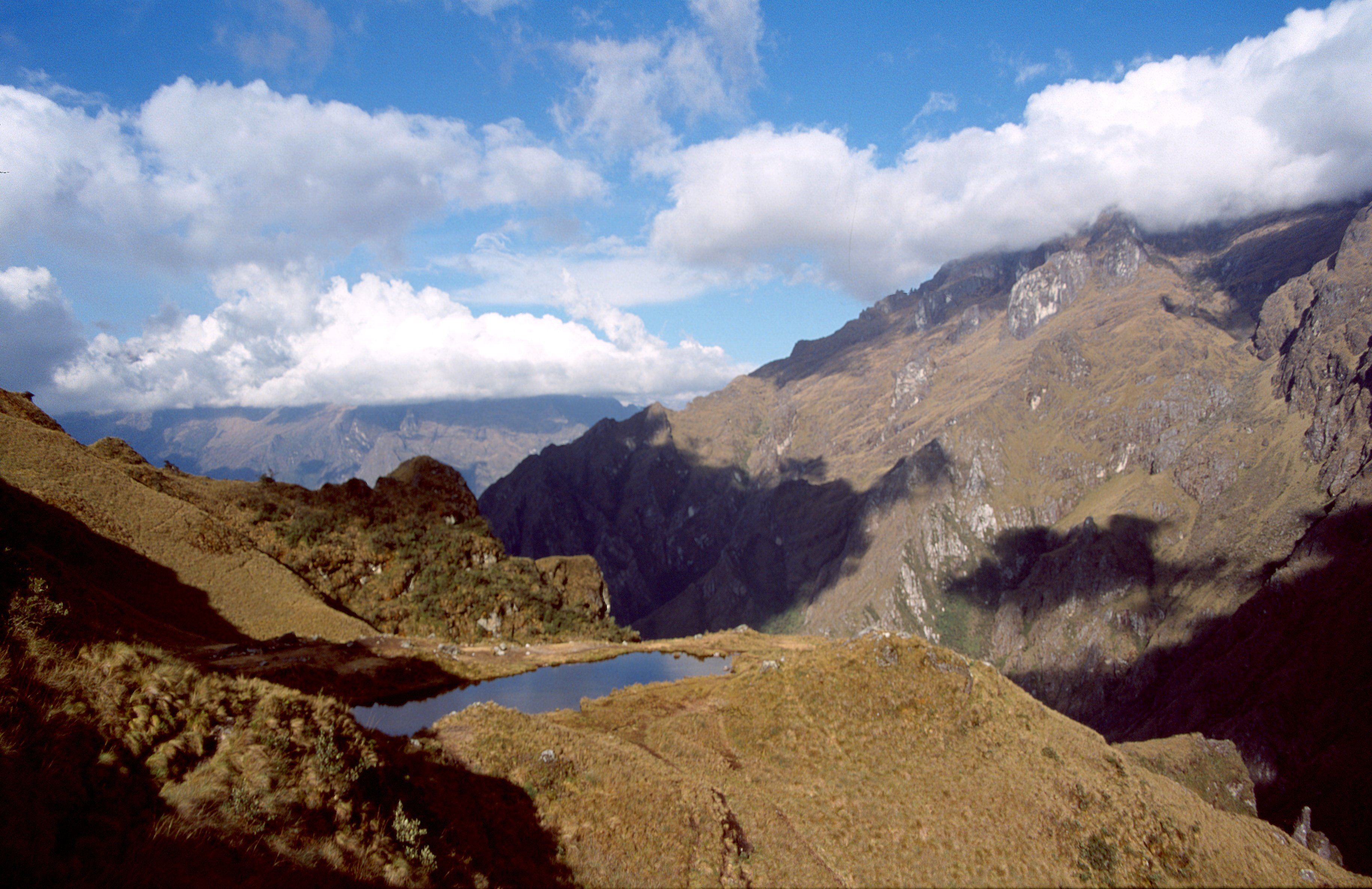 Inca trail from Cusco to Machu Picchu in Perú. Day 2. Landscape.